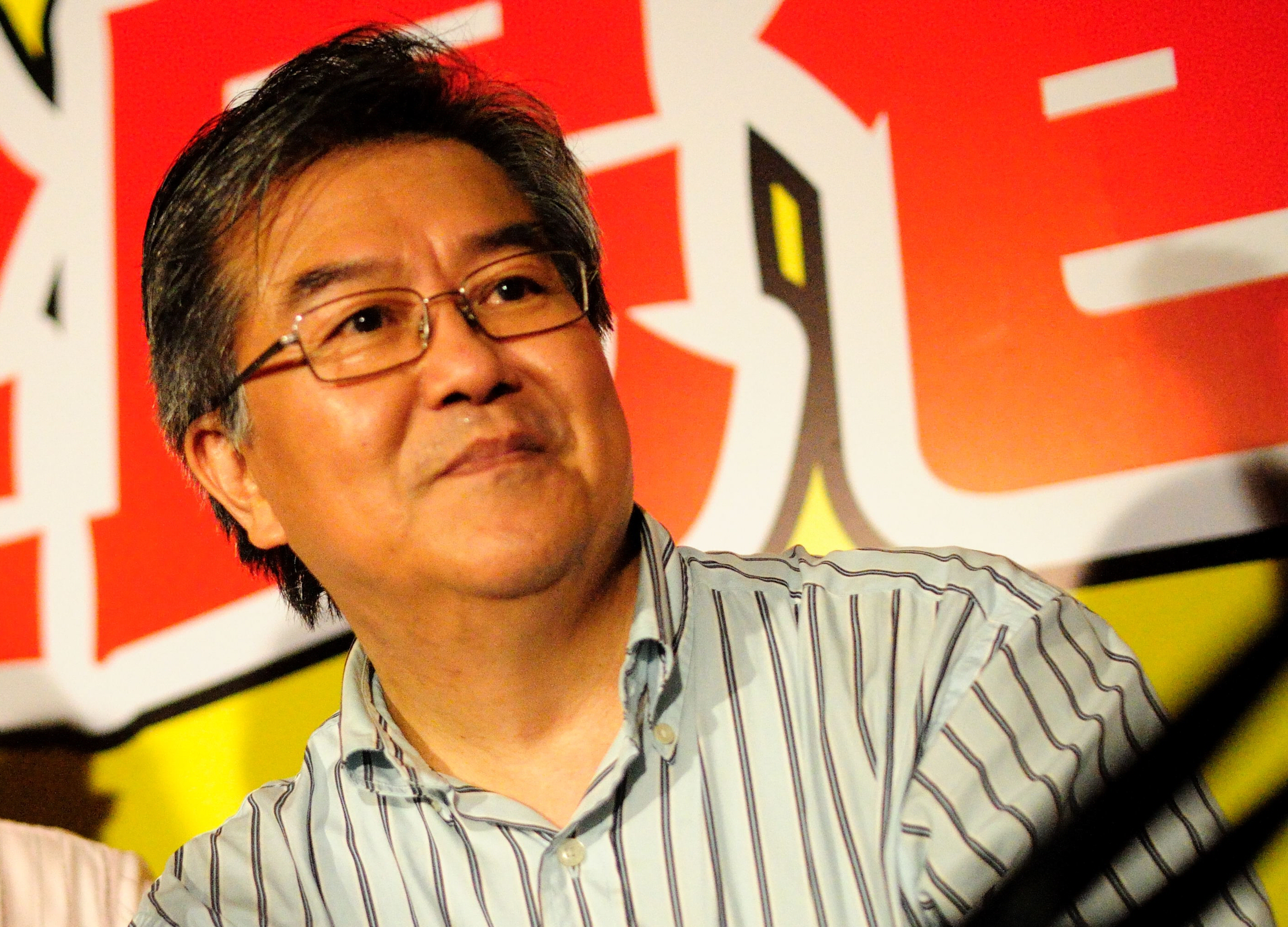 Lam Yuk Wah